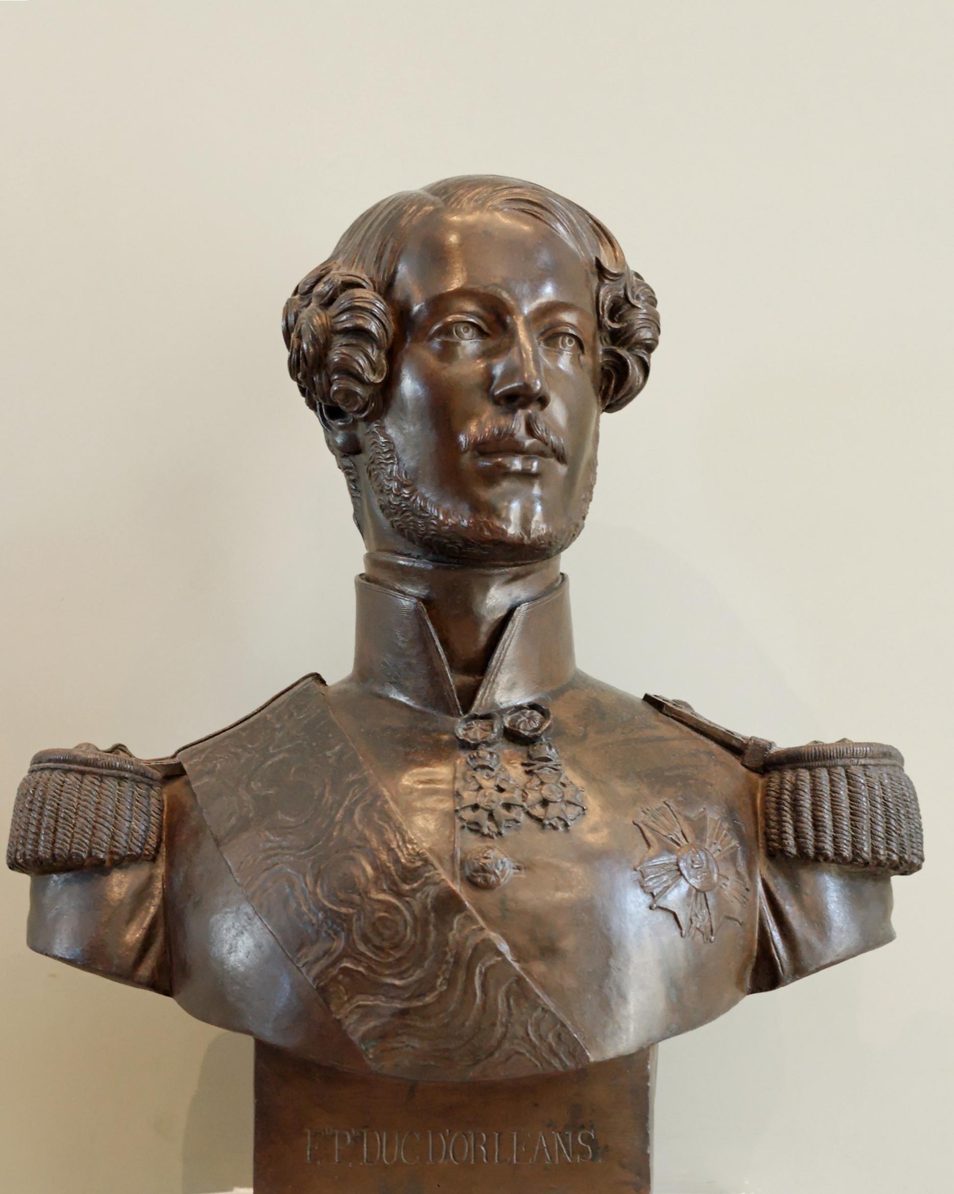 Lost-wax cast bronze by Eugène Gonon. Sculpted in 1842 after the death mask of the Duke of Orléans.